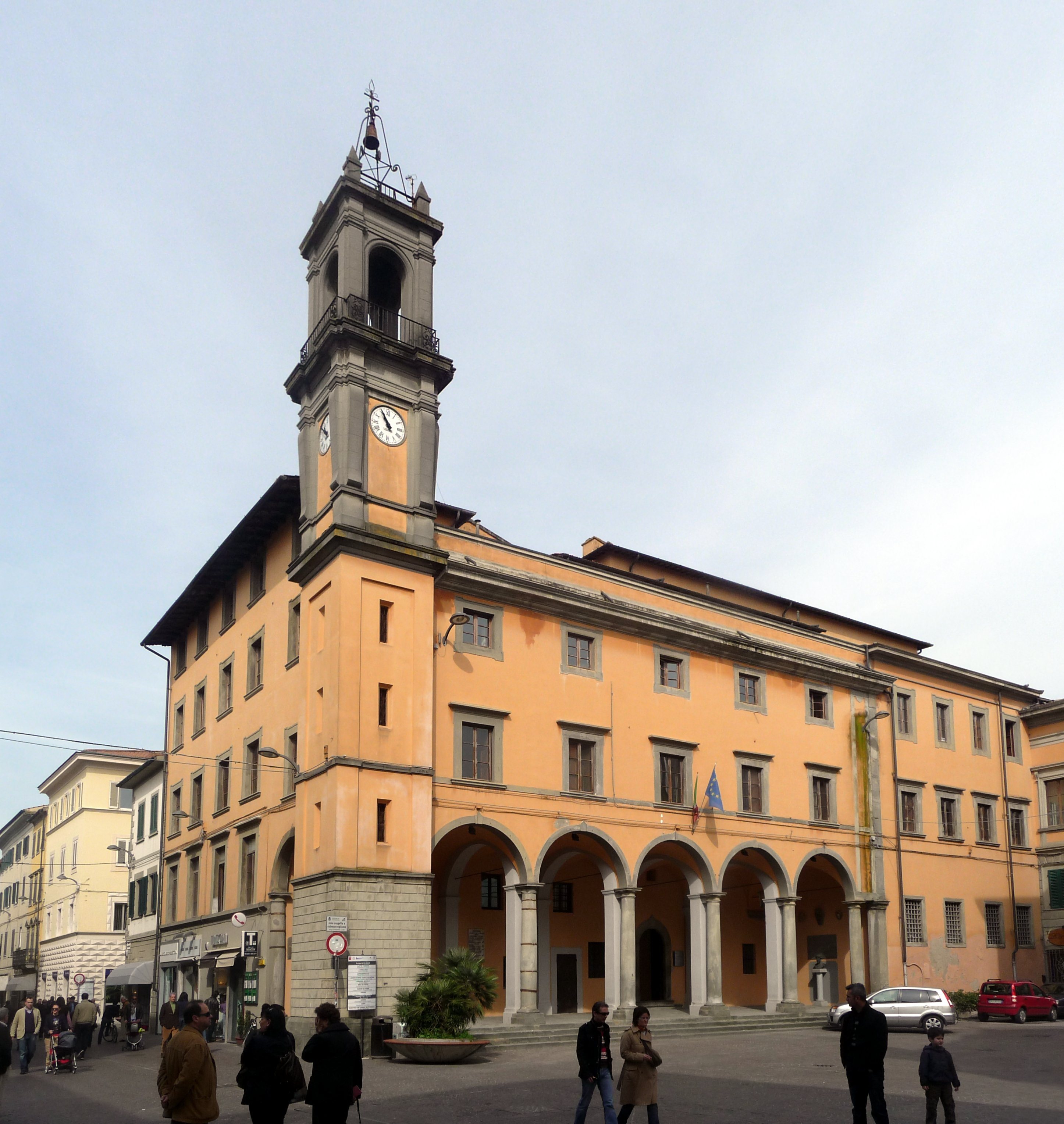 Palazzo Pretorio, Pontedera, Province Pisa, Tuscany, Italy